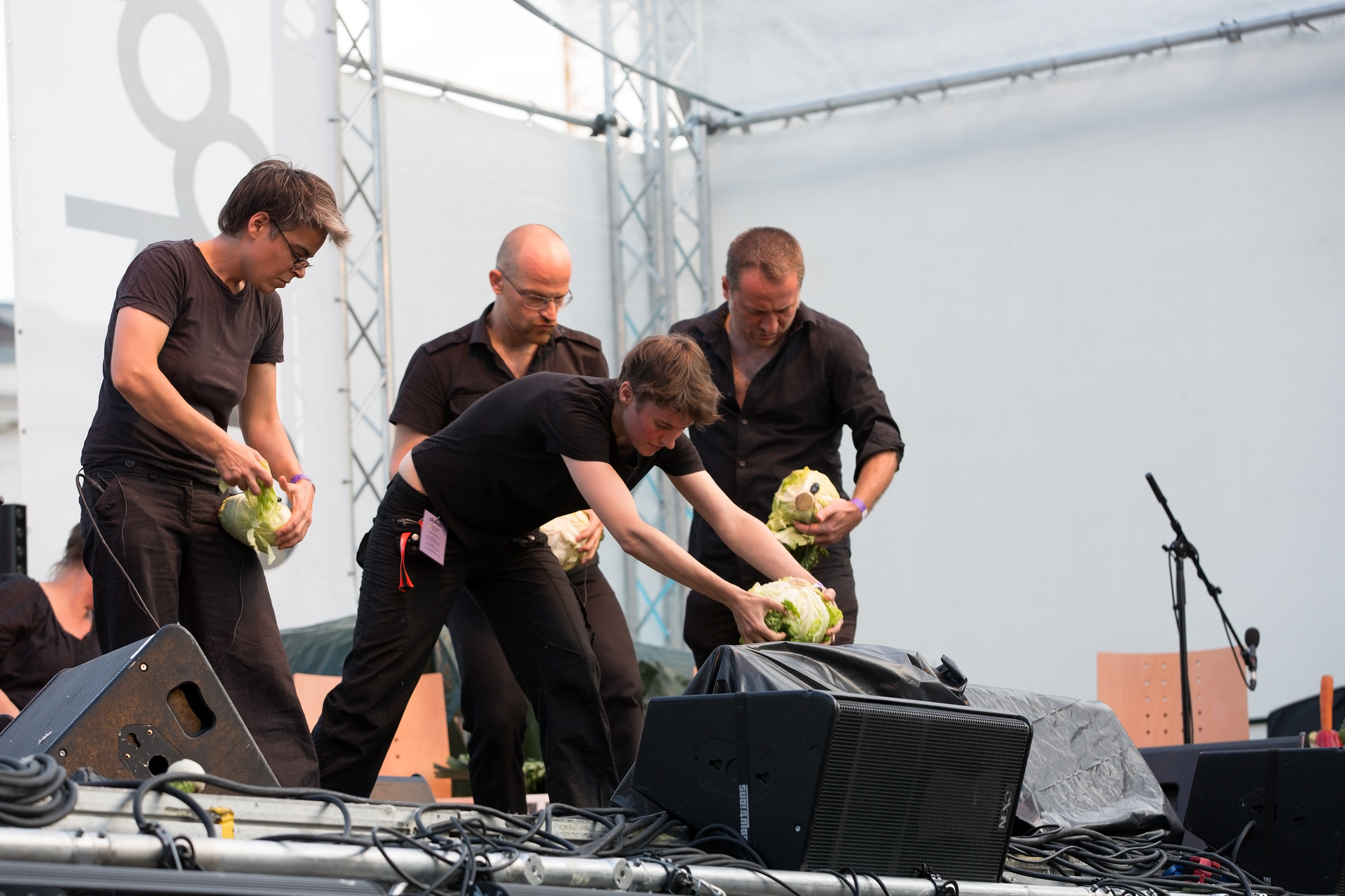 Popfest 2015: The Vegetable Orchestra; Karlsplatz in Vienna, Austria.